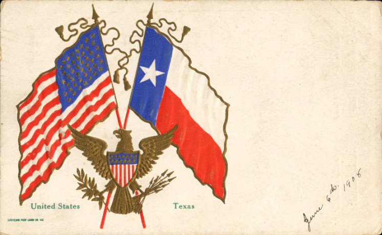 United States and Texas Flags